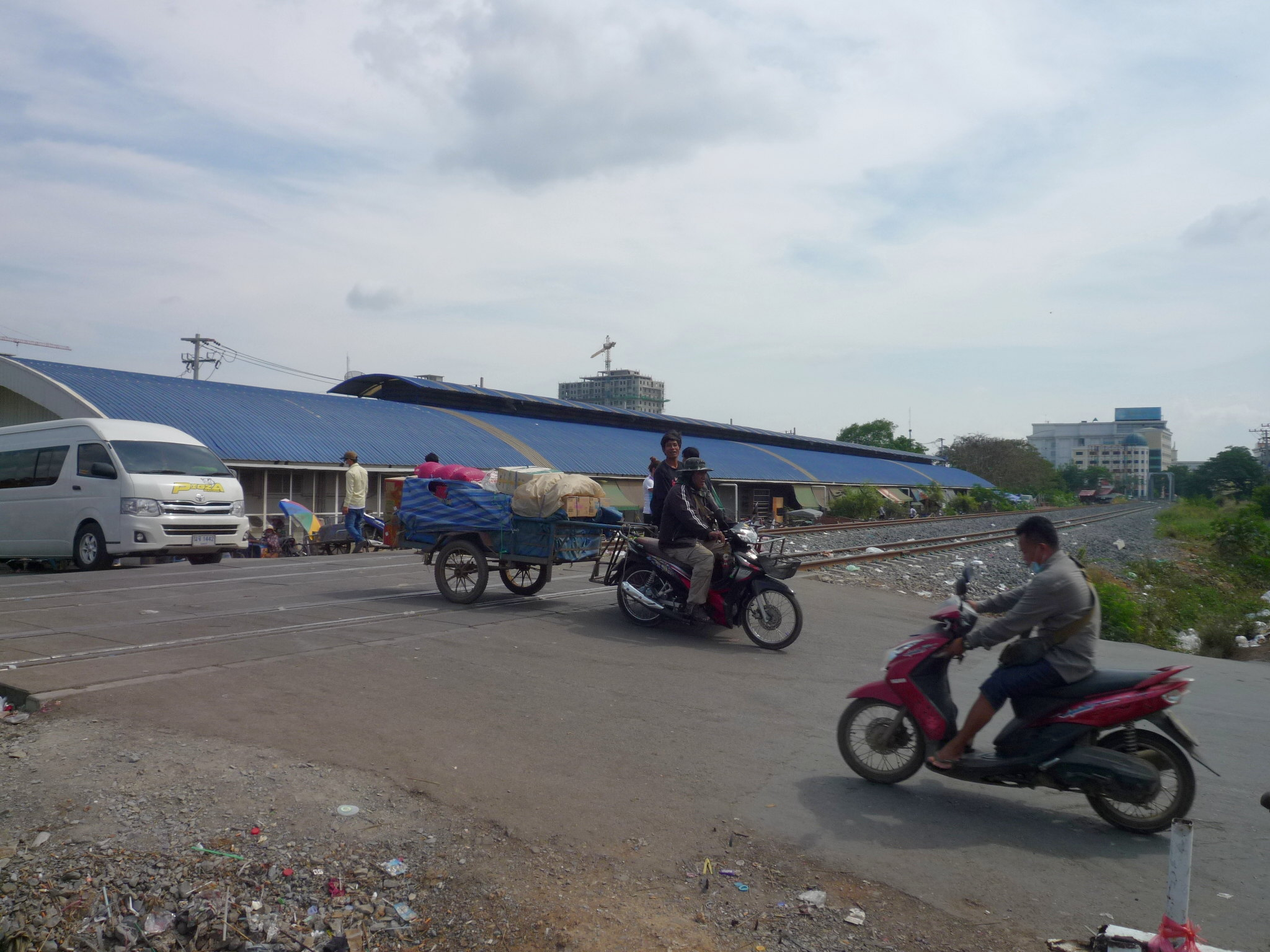 Level crossing without railway; motorcycle with remorque and side car just crossing. Khlong Luek Bridge to Cambodia in the background to the right, the line ending on the far abutment.